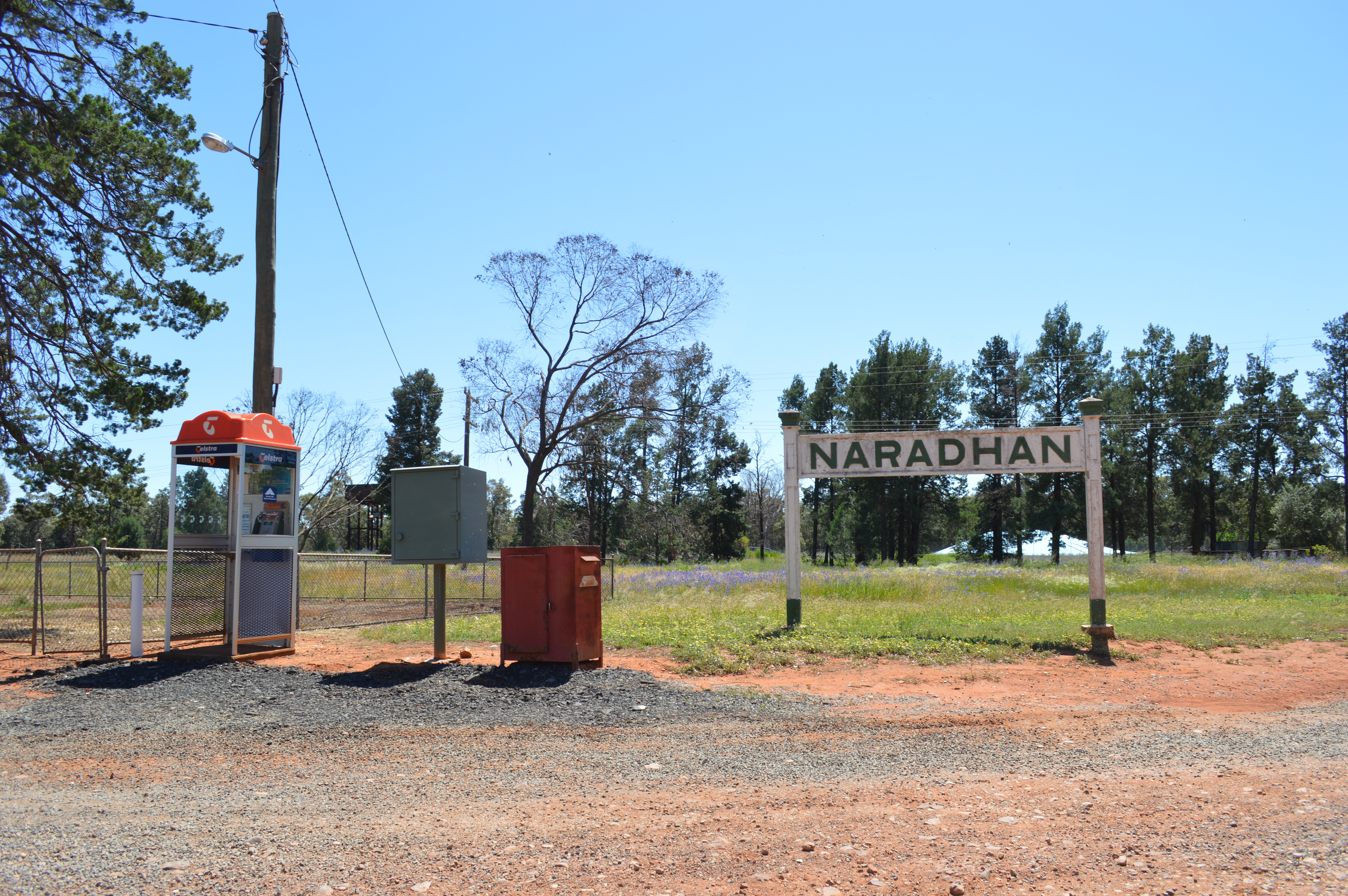 Railway station sign at Naradhan, New South Wales